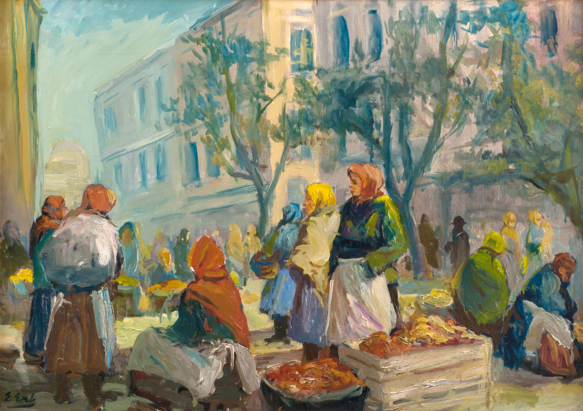 Street vendors on the market